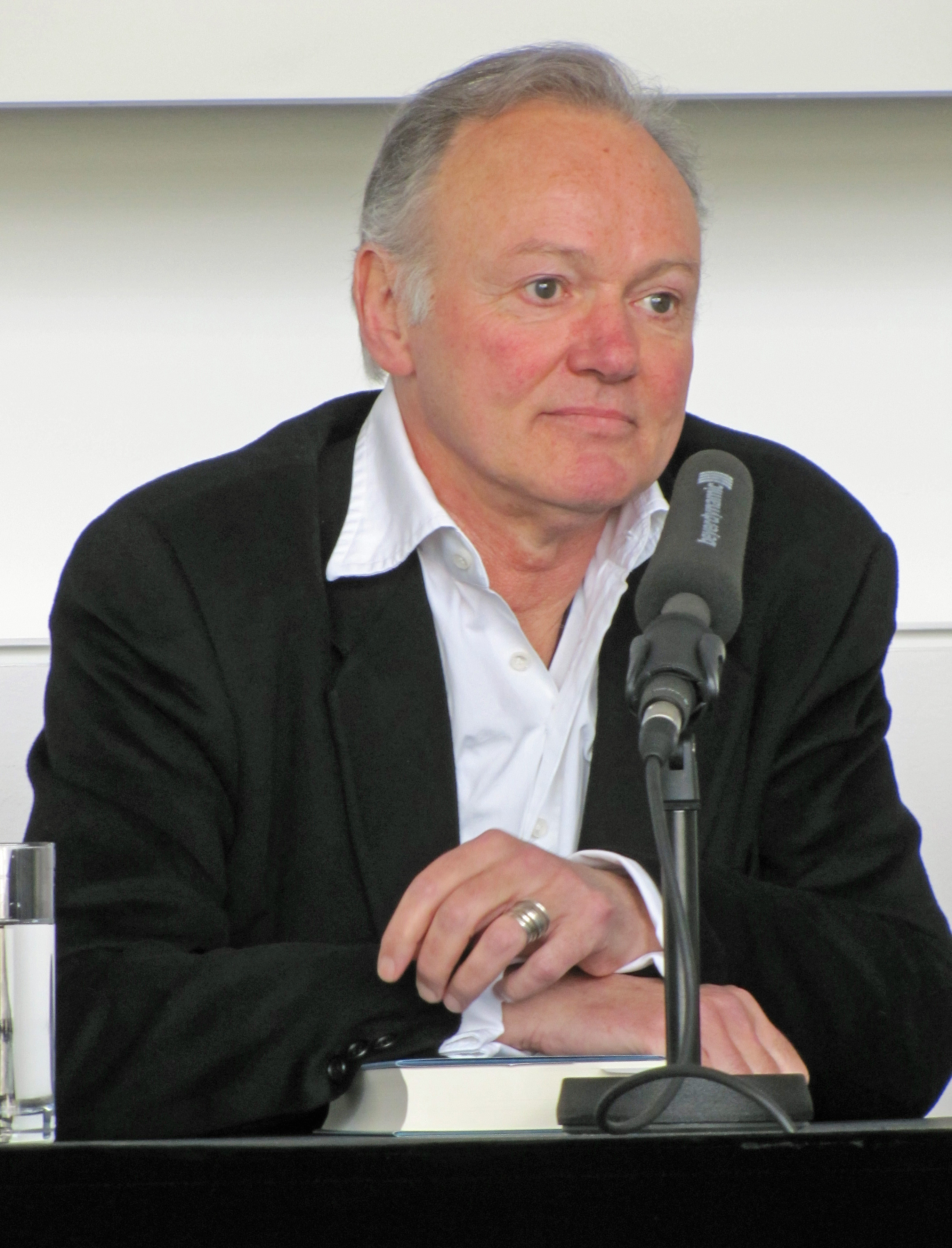 Willi Zurbrueggen, German writer and translator, 2010 in Frankfurt am Main, Germany.